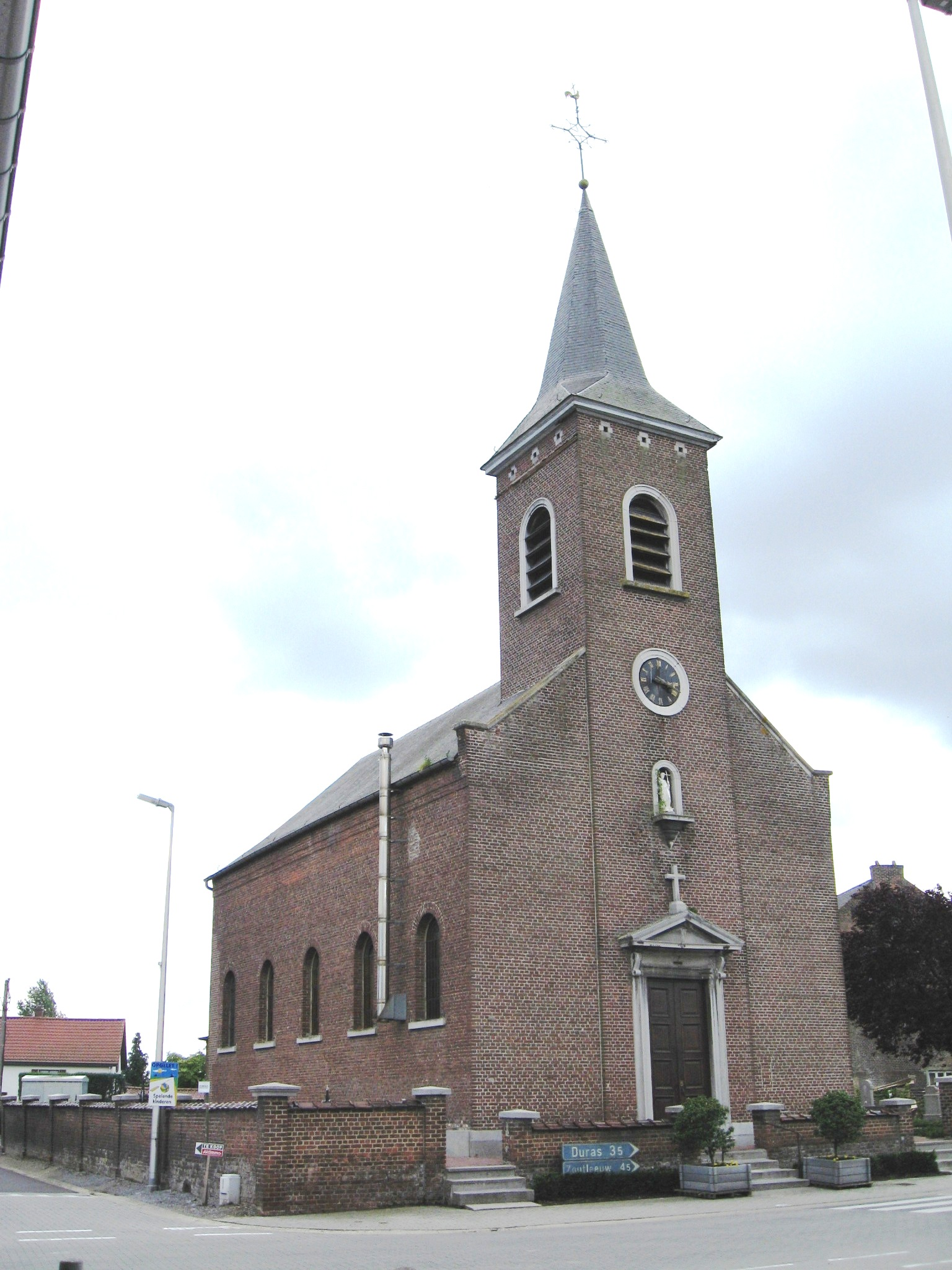 Church of Saint John the Baptist in Binderveld, Nieuwerkerken, Limburg, Belgium